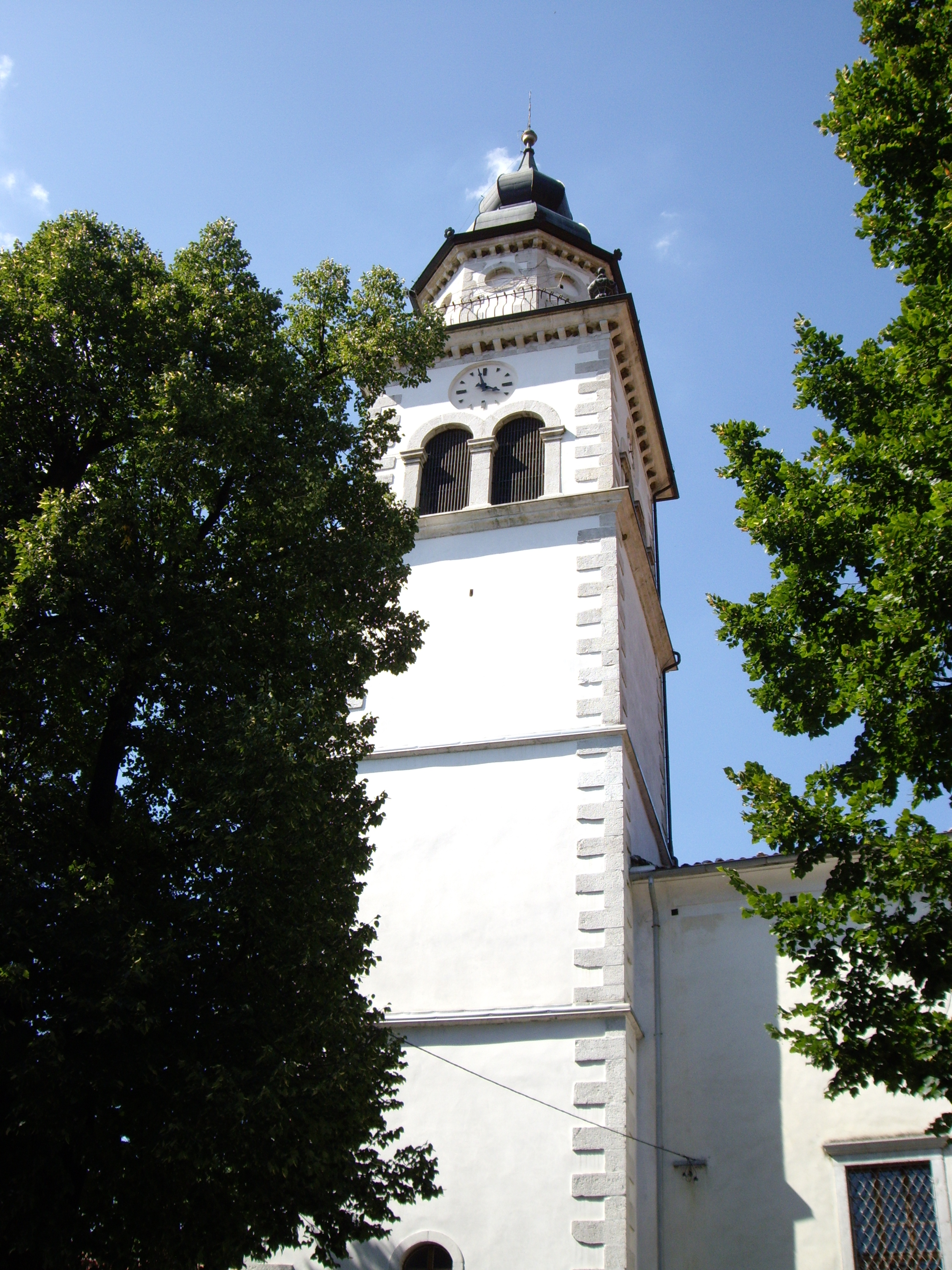 Saint Stefan Church, Vipava, Slovenia